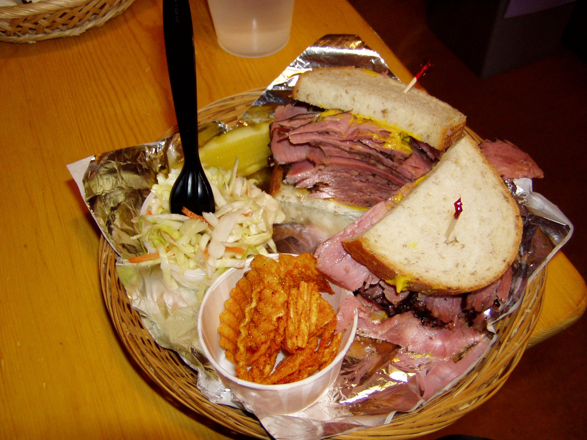 Smoked meat sandwich from Palace of Eats, Calgary, Alberta. Served with coleslaw, potato chips and half a pickle. (del) (cur) 09:18, 16 January 2005 . . JamesTeterenko (638895 bytes) (Boss' Cut Smoked meat sandwich from Palace of Eats, Calgary, Alberta.)